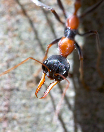 Close up of a worker M. nigrocincta. Note the large jaws and eyes.